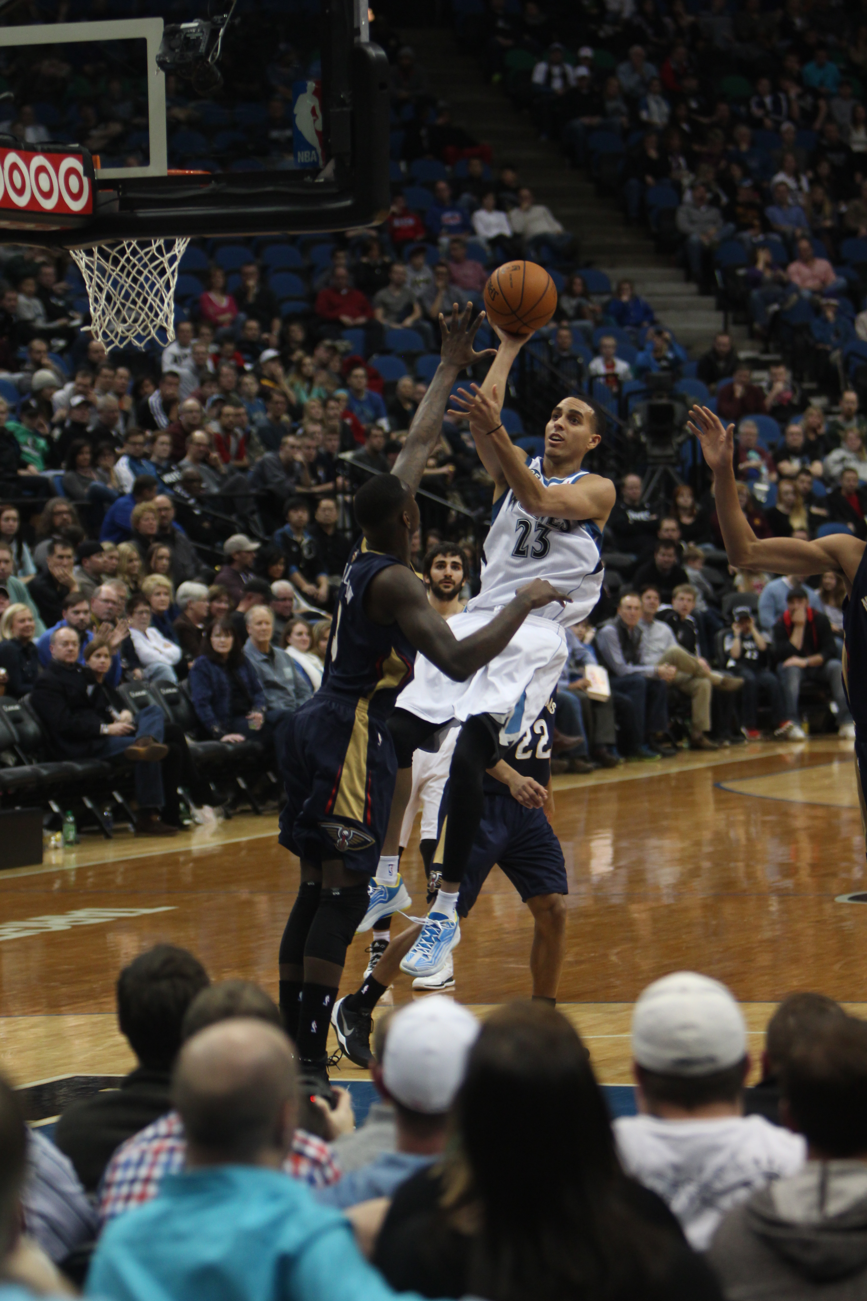 Kevin Martin (basketball)